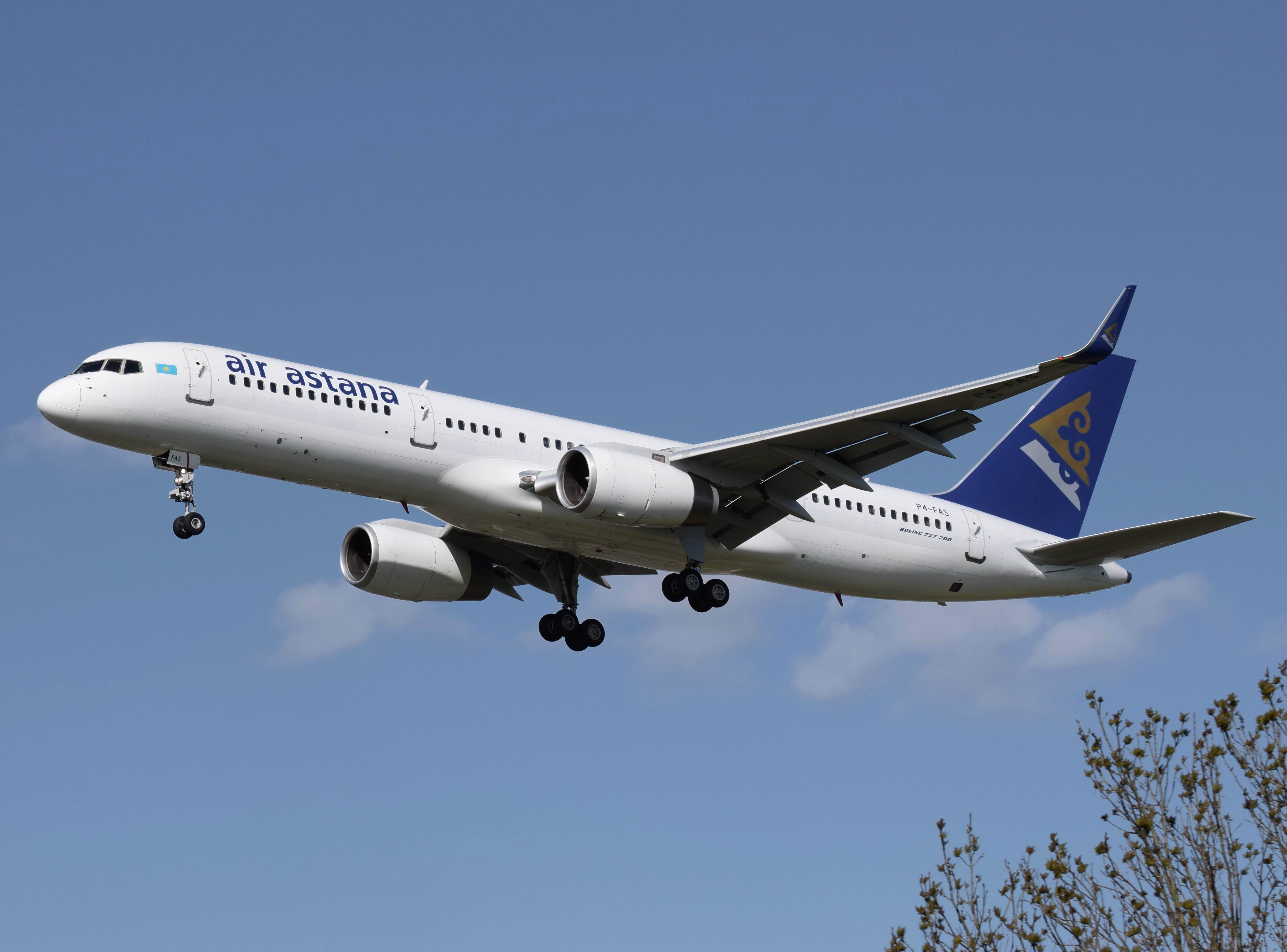 Air Astana Boeing 757-200 (P4-FAS) arrives at London Heathrow Airport, England.